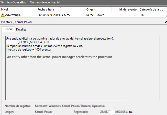 Kernel Power event